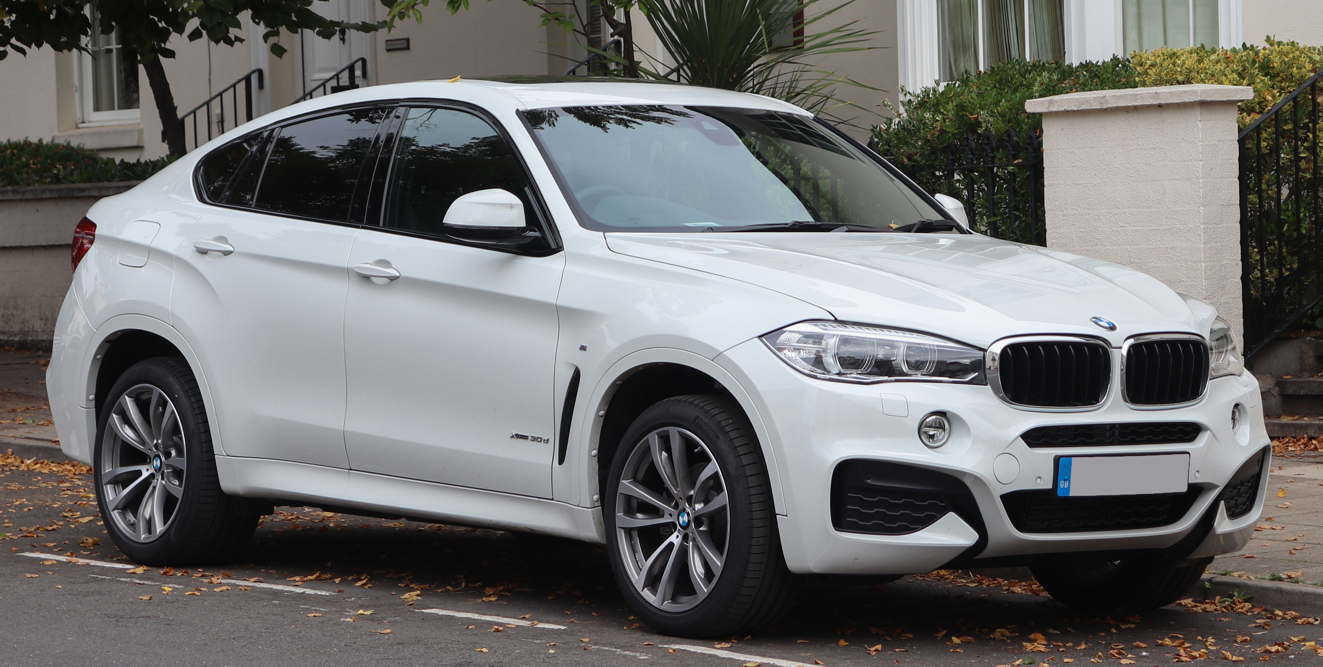 2018 BMW X6 xDrive30d M Sport Automatic 3.0 Front Taken in Leamington Spa